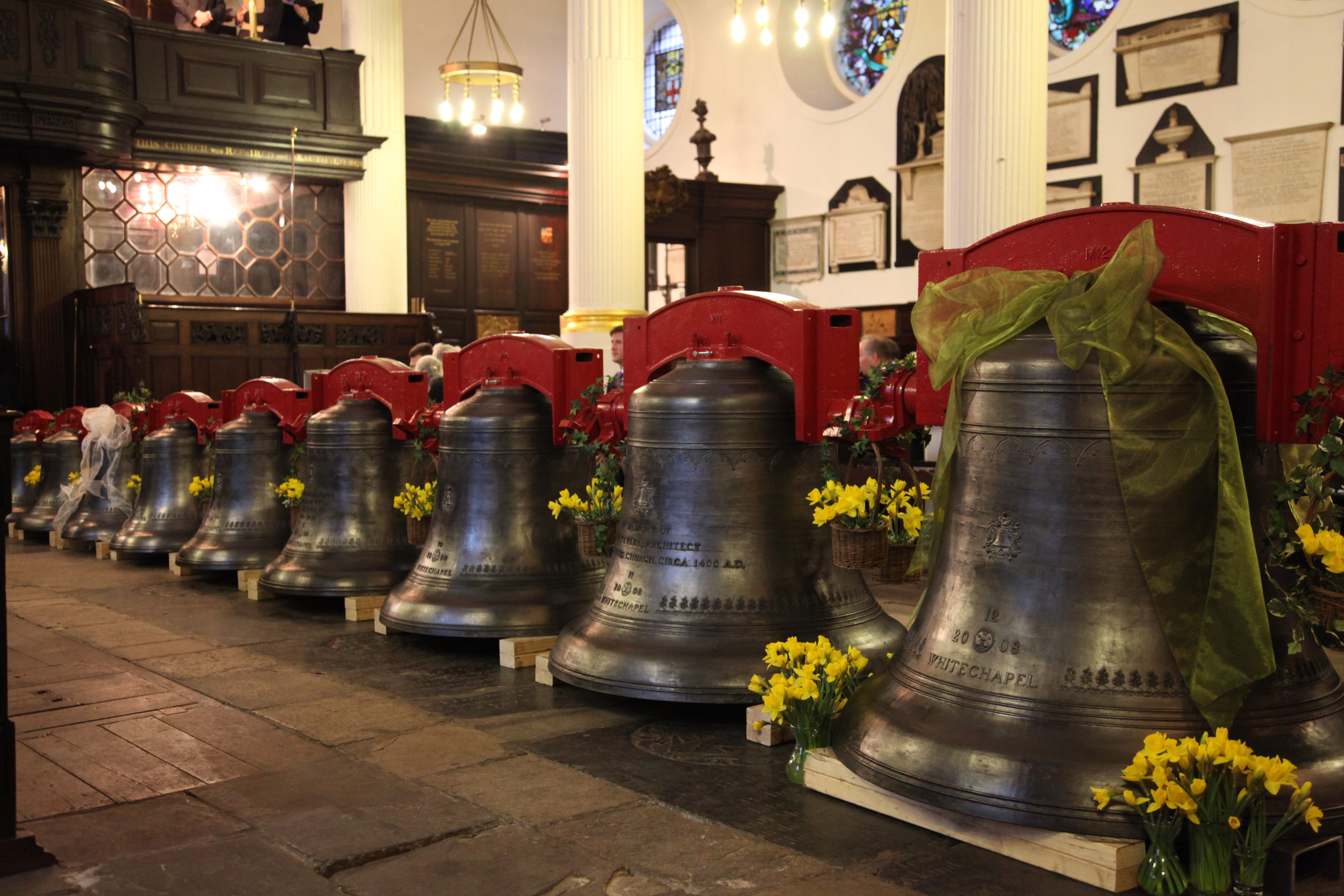 The new bells for St Magnus the Martyr lined up down the aisle of the nave on 3rd March 2009 prior to their consecration.